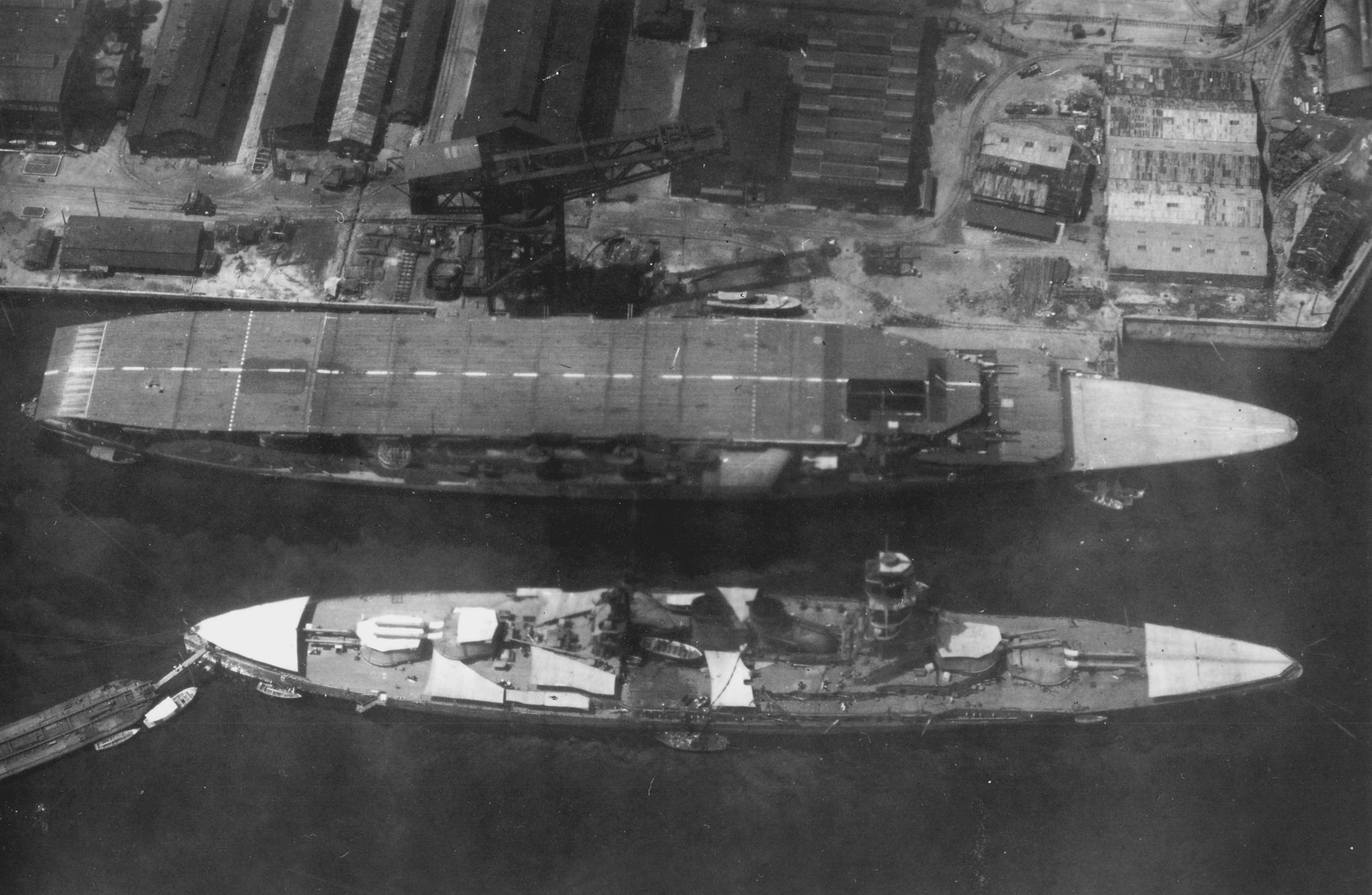 Imperial Japanese Navy aircraft carrier Akagi (top) and battleship Nagato at Yokosuka on August 15, 1930.